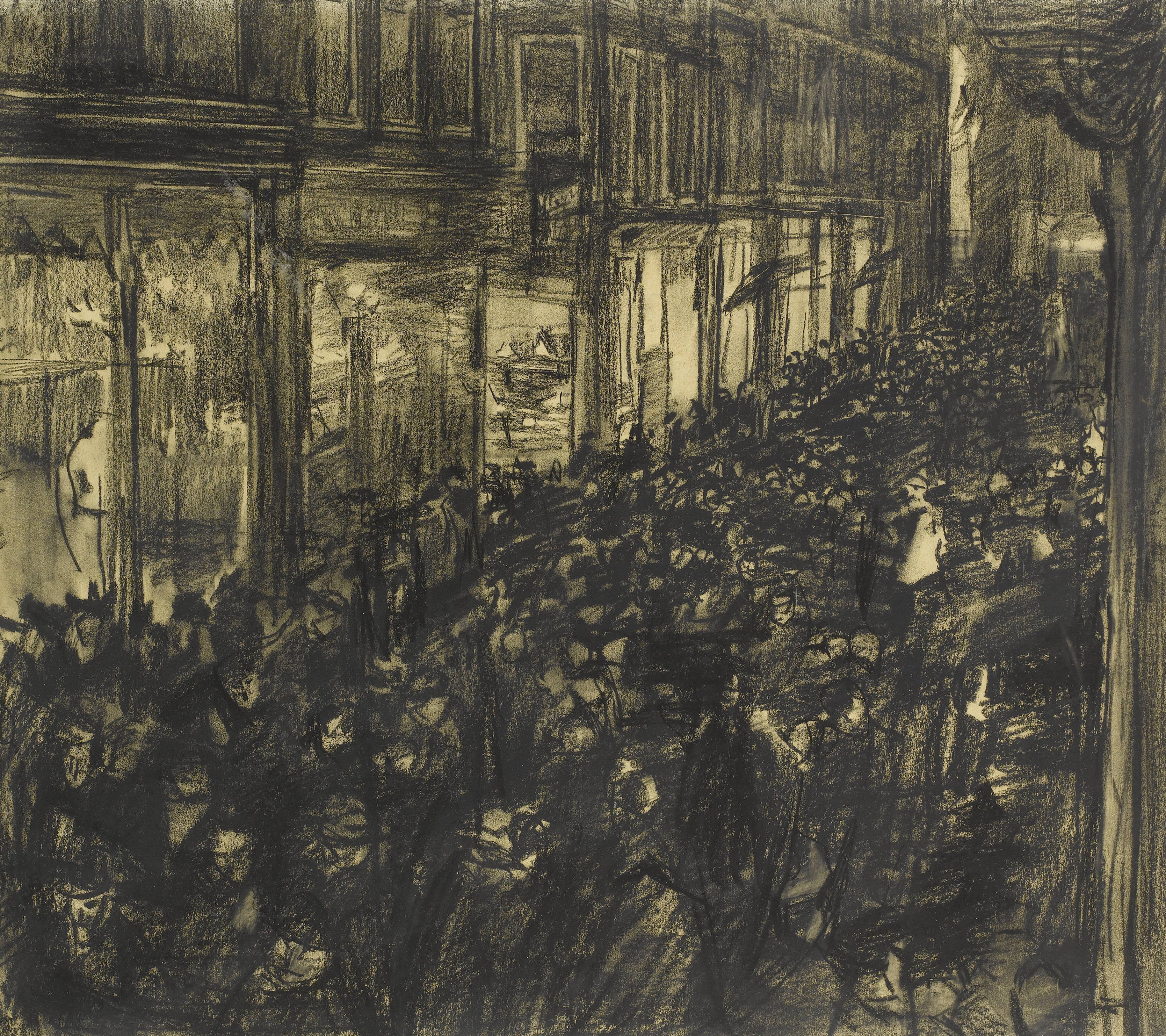 The Kalverstraat, celebrating the birth of Princess Juliana of the Netherlands, 1 May 1909. Signed Isaac Israels . Charcoal on paper. 55 x 62.5 cm